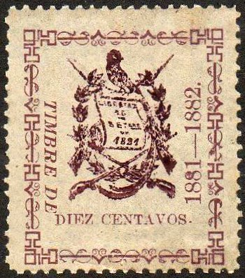 1881-82 revenue stamp of Guatemala. Catalogue: Forbin 10